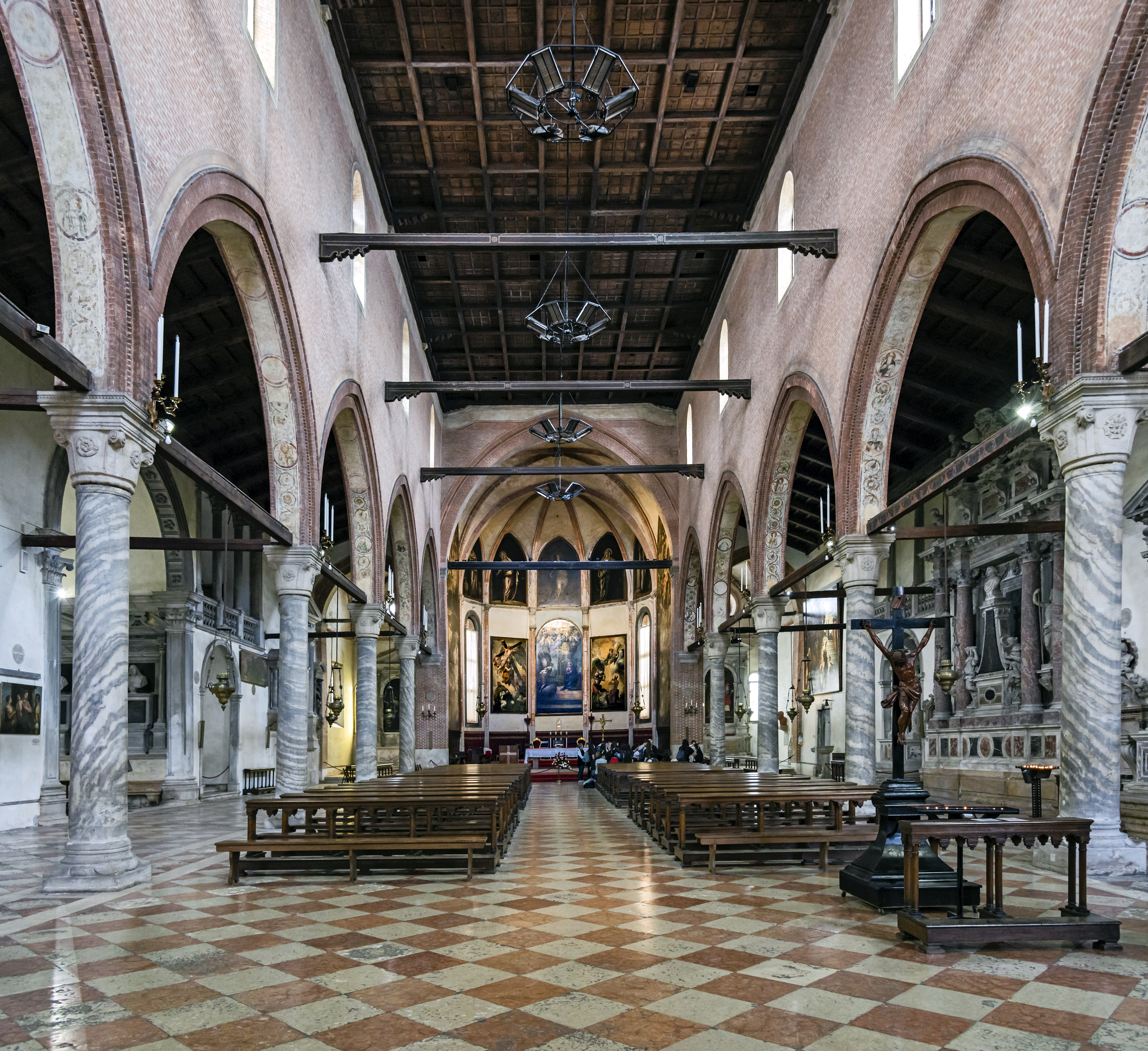 Madonna dell'Orto, Venice Interior.